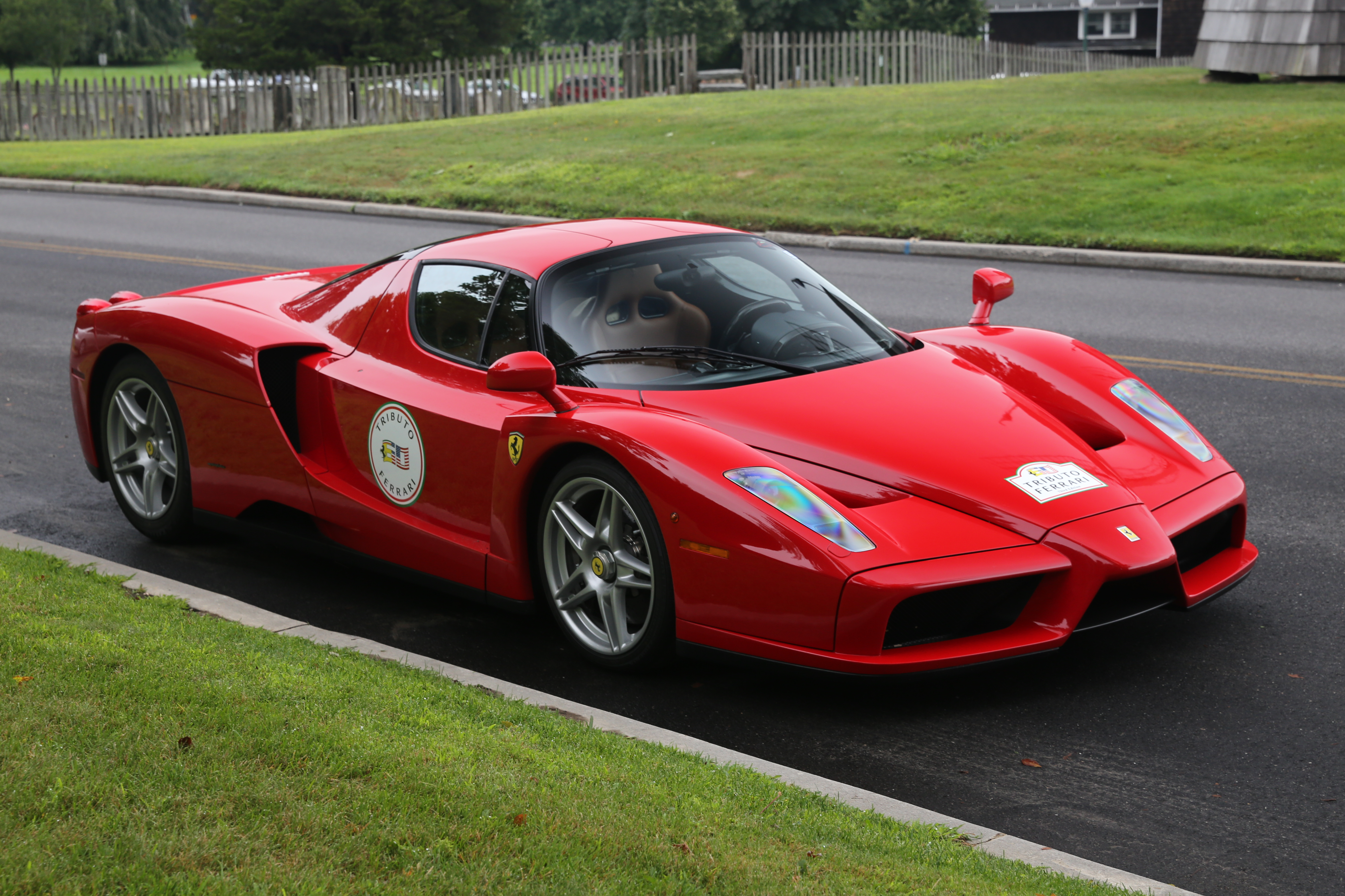 Florida plates and some sort of "Tributo Ferrari" stickers on the sides and front. This caught quite a lot of attention, with pedestrians skipping across the lawn to get a shot.